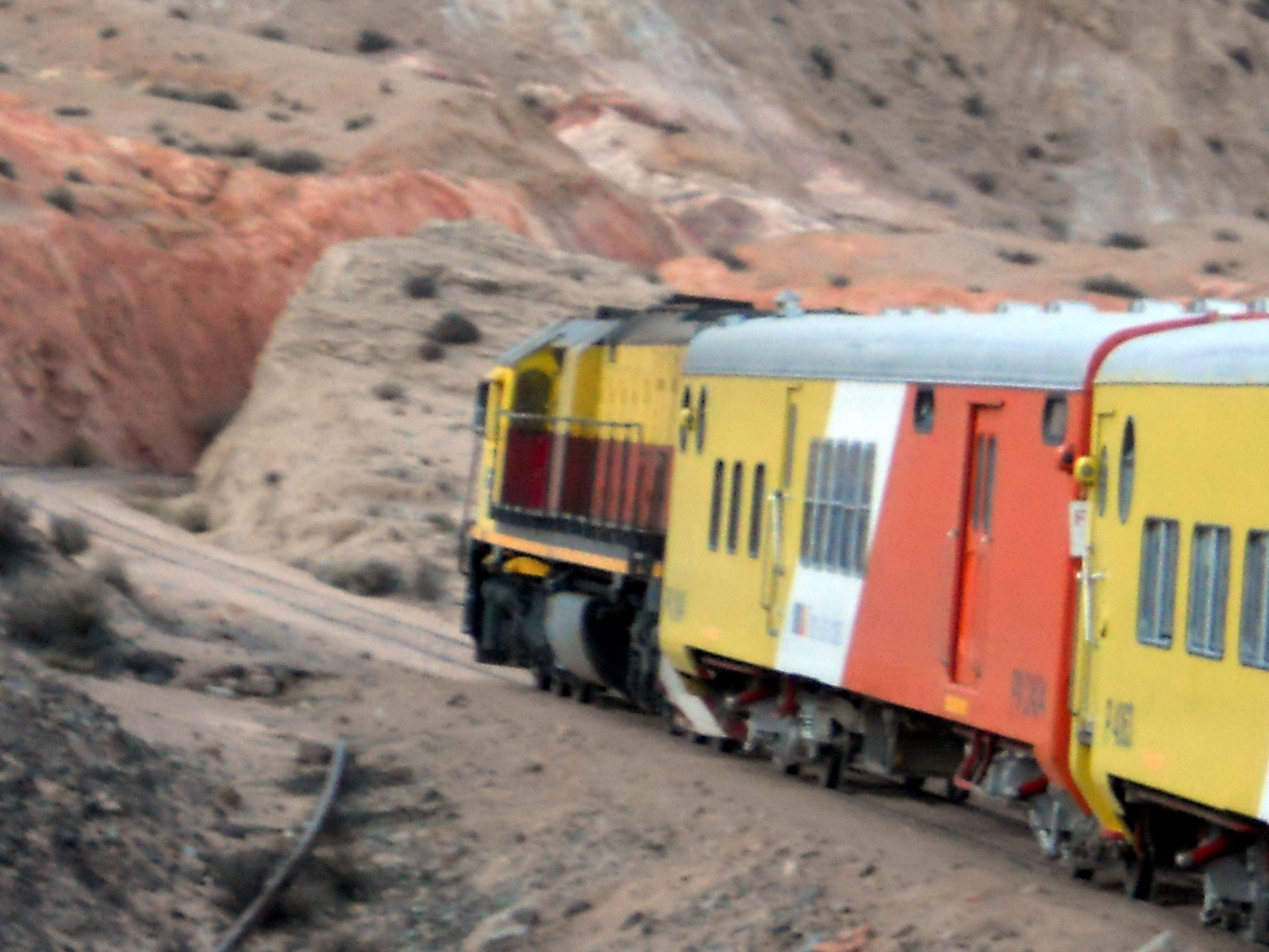 Train to the cluds